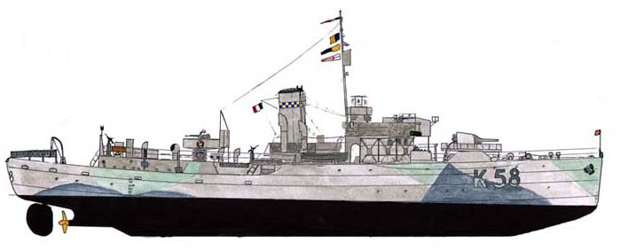 Free French Naval Forces corvette Aconit, as in 1942.